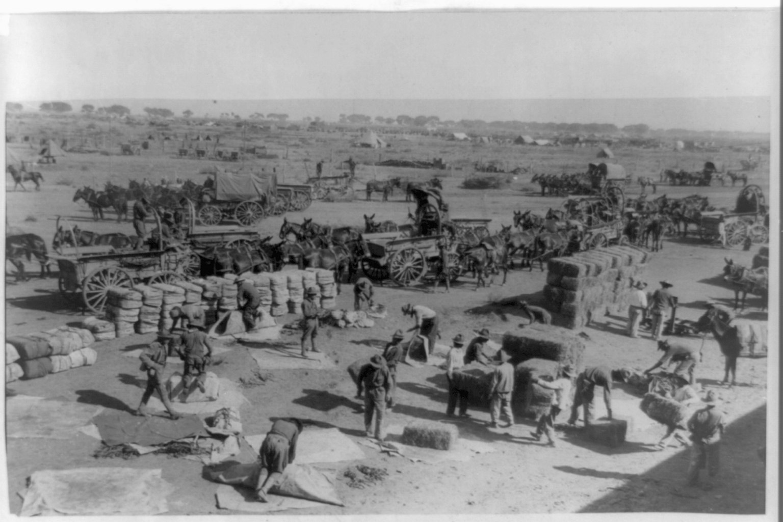 Title: U.S. Army Punitive Expedition after Villa, Colonia Dublan, Mexico, 1916. American Headquarters: Unloading supplies from Mexican train which has come from Juarez on the border Abstract/medium: 1 photographic print.